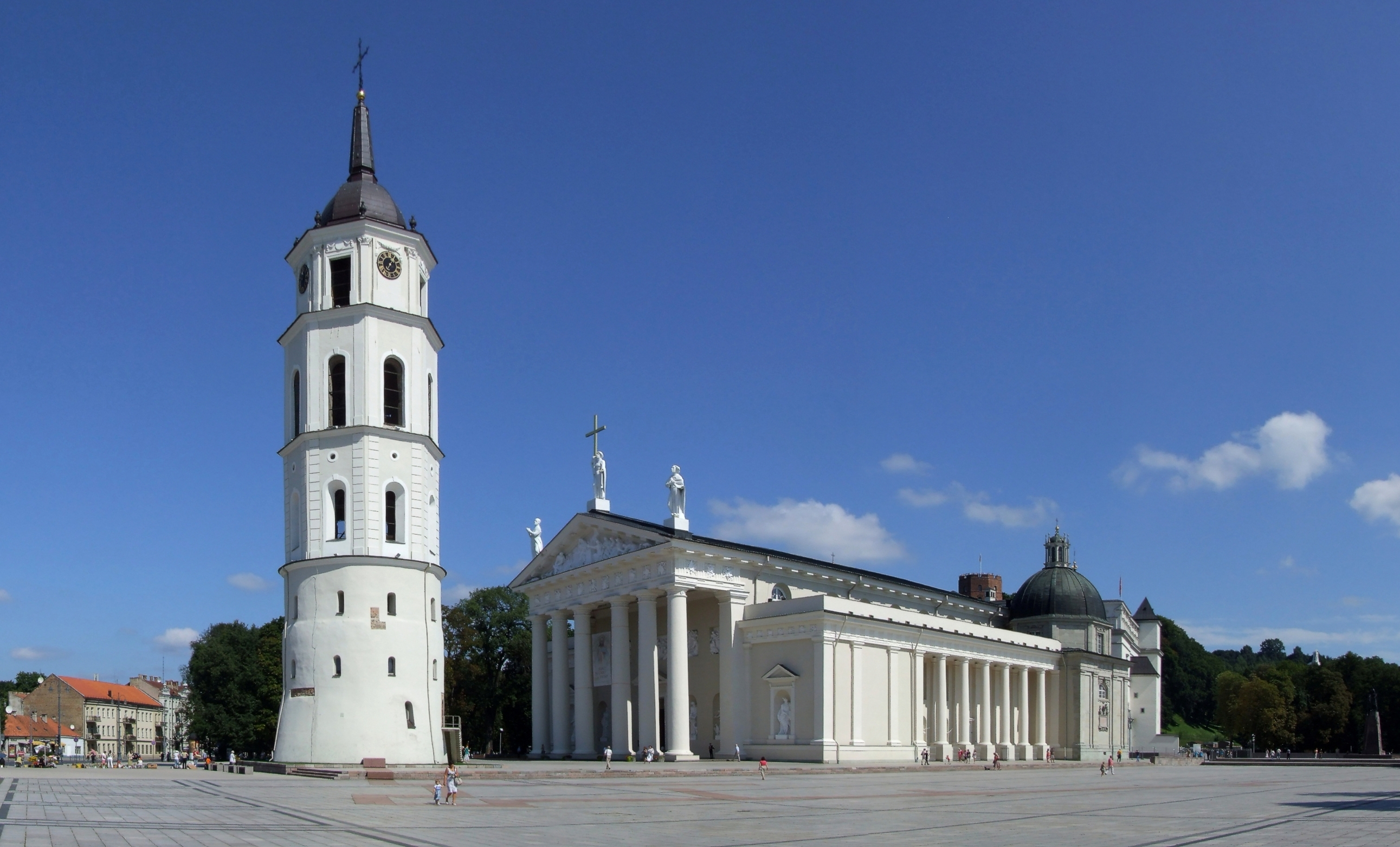 Cathedral in Vilnius (Wilno)